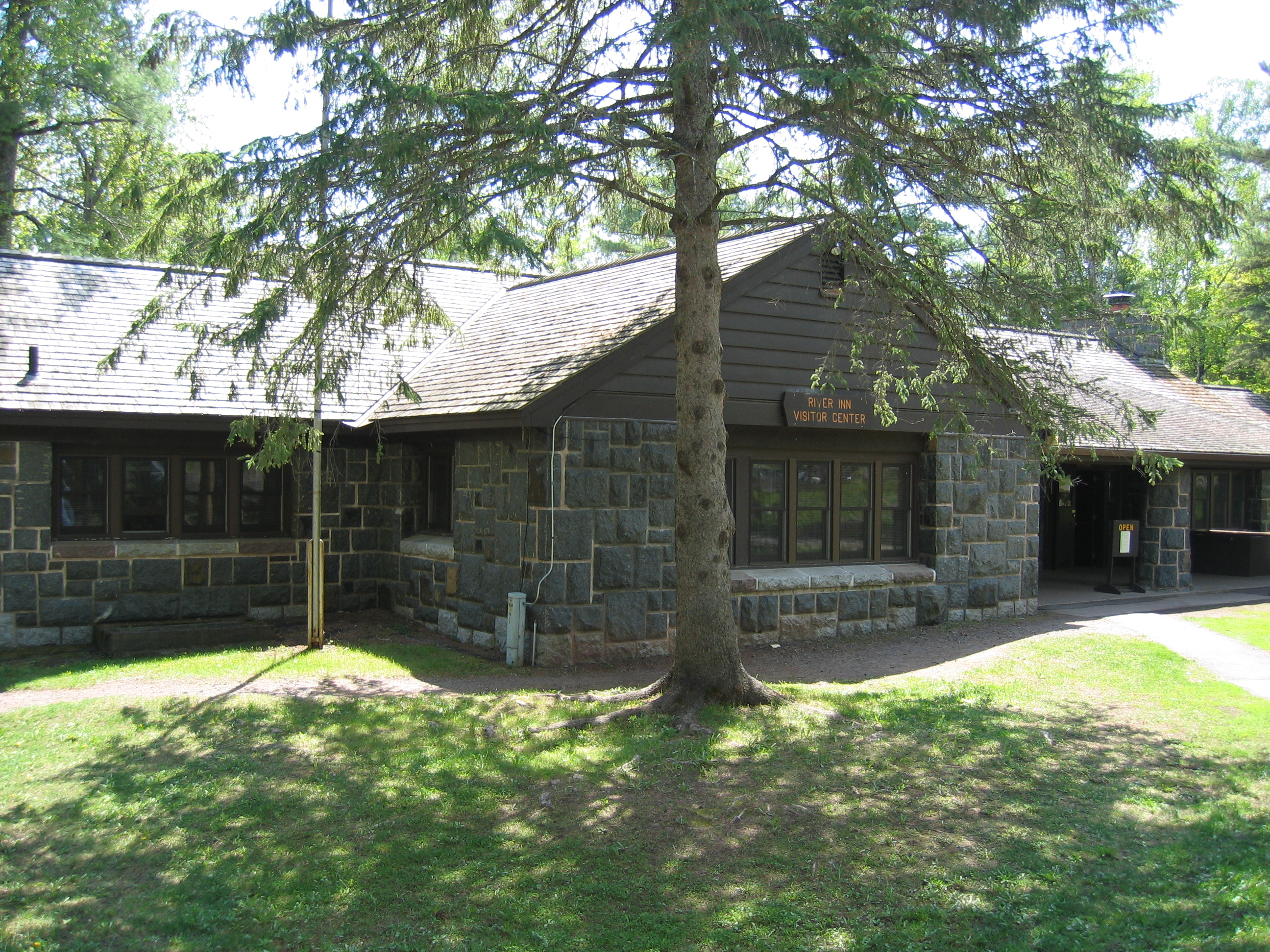 The River Inn at Jay Cooke State Park in Minnesota